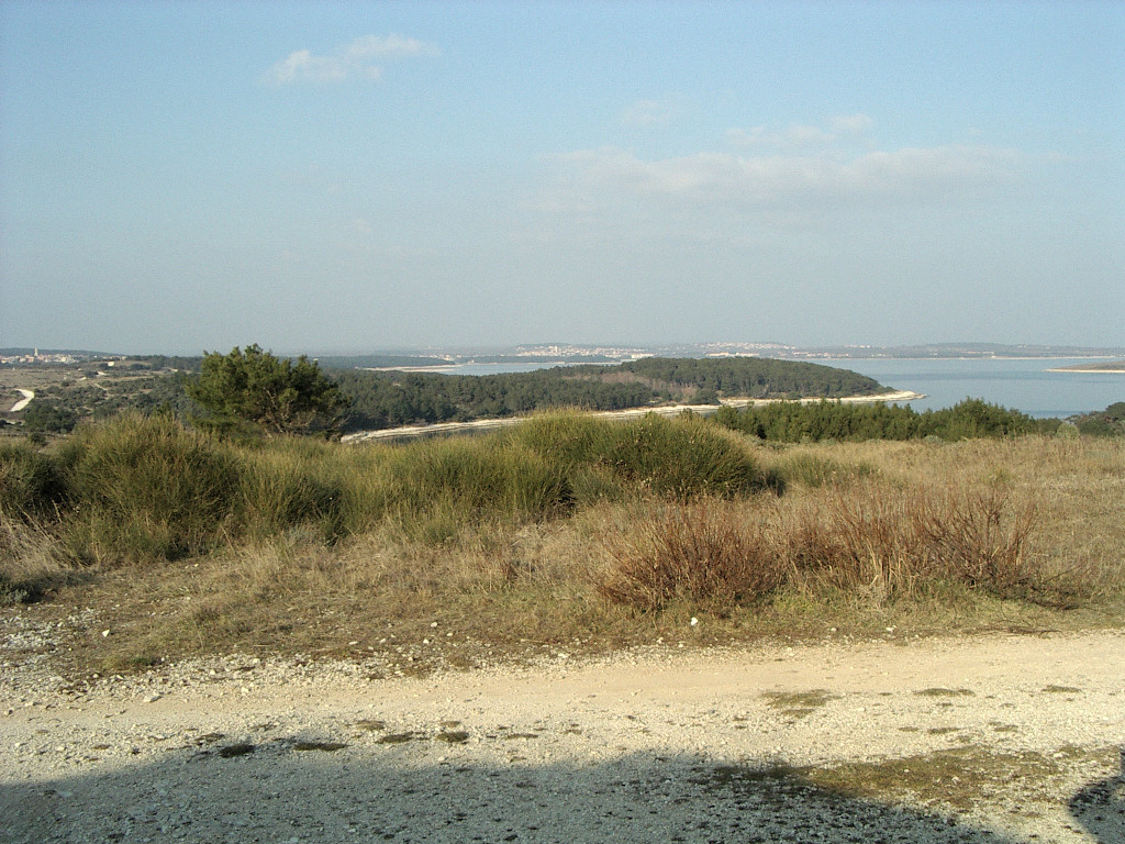 Description: Landscape in Cape Kamenjak regional park near Pula, Istria Source: / Date: 8th February 2005 Author: Tcie Licence: CreativeCommons Attribution-ShareAlike 2.5